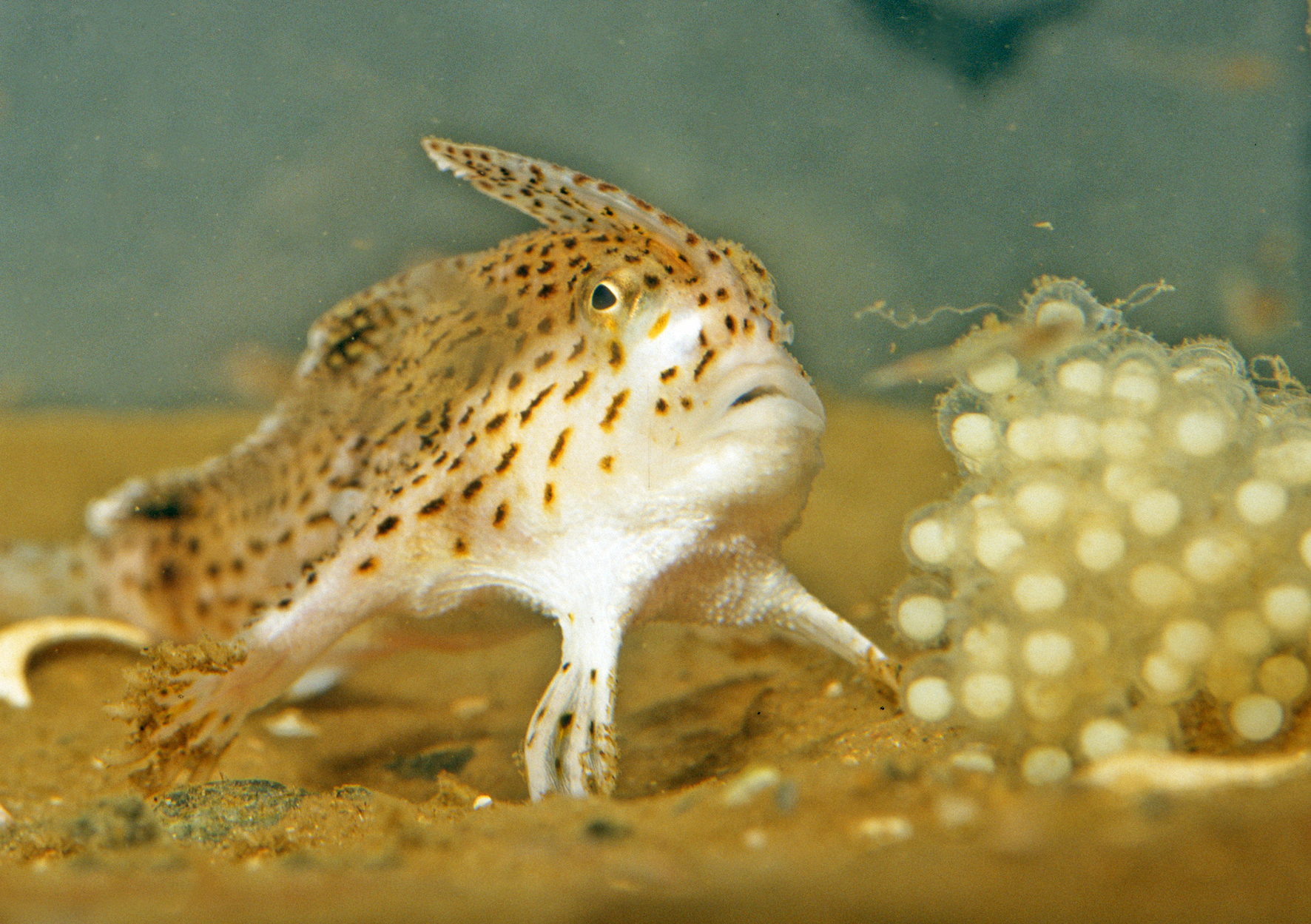 Handfish are small, bottom-dwelling fishes that would rather 'walk' on their pectoral and pelvic fins than swim. They are native to Australia and five of the eight identified handfish species are found only in Tasmania and Bass Strait. The spotted handfish is endemic to Tasmania's lower Derwent River estuaryand adjoining bays where it is found on the sandy sediments. In 1996, the spotted handfish became the first Australian marine fish to be listed as endangered. Scientists, government and the community are involved in a federally-funded recovery plan for the spotted handfish led by CSIRO Marine Research.